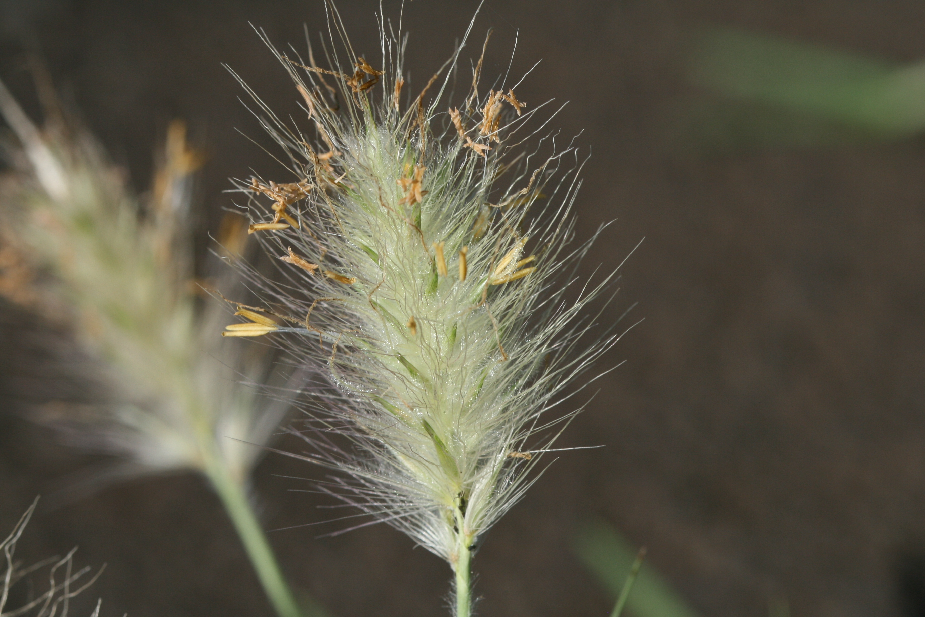 Feathertop or White Foxtail (Pennisetum villosum) along roadside in Towoomba, Queensland, Australia. Photographed on 18 April 2009.